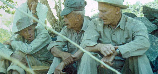 Photo taken of three USGS geologists in the field in the late 1950's. Extracted from USGS Open-FIle Report 02-422, "Levi Noble: Geologist", by Lauren A. Wright and Bennie W. Troxel